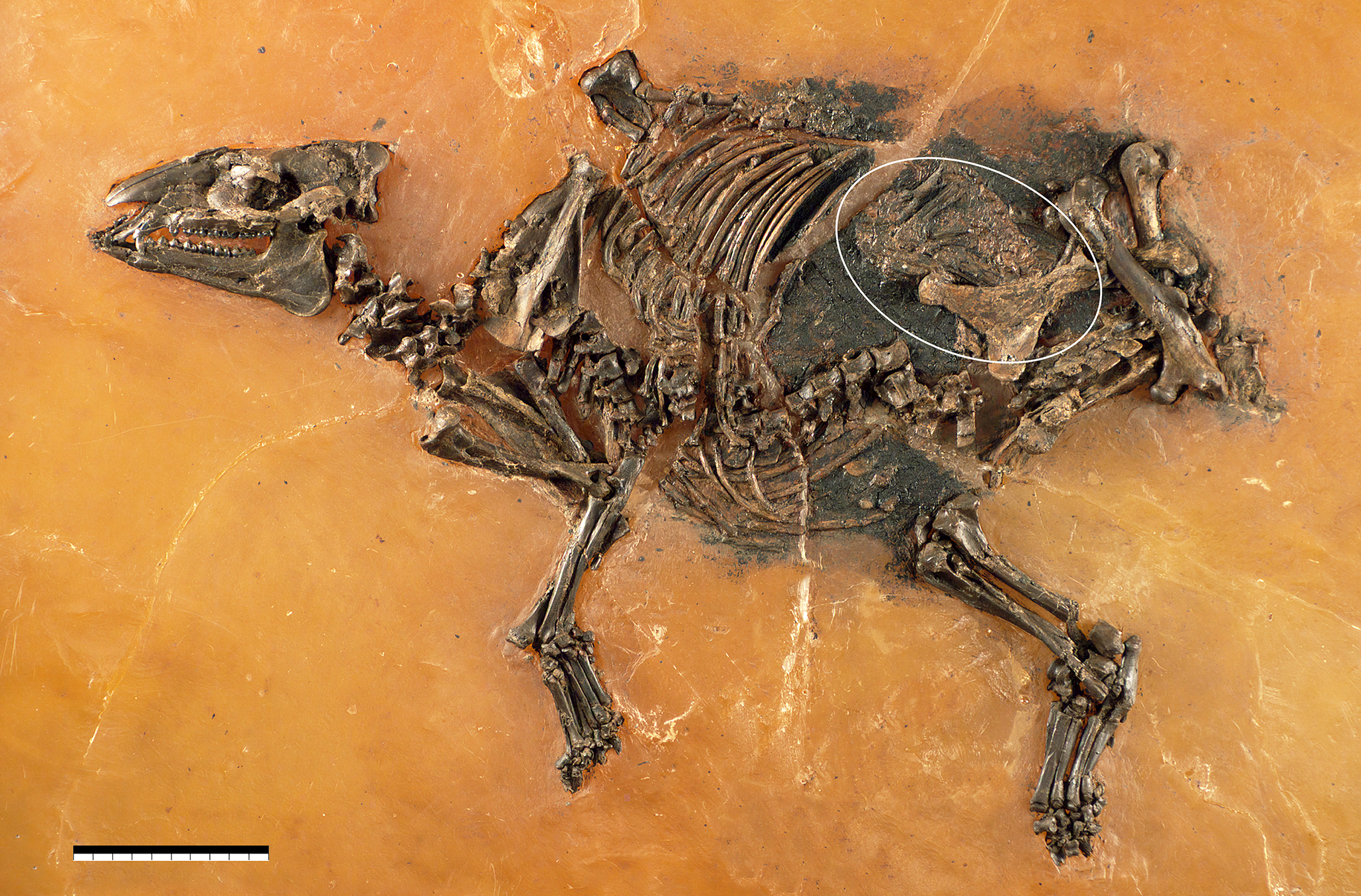 Skeleton of a mare of Eurohippus messelensis with fetus (white ellipse). The specimen was discovered and excavated by a team of the Senckenberg Research Institute Frankfurt at the Grube Messel (Germany; inv. no. SMF-ME-11034), shoulder height ca. 30 cm, scale = 10 cm.–Photo: Senckenberg Forschungsinstitut Frankfurt, Sven Tränkner.